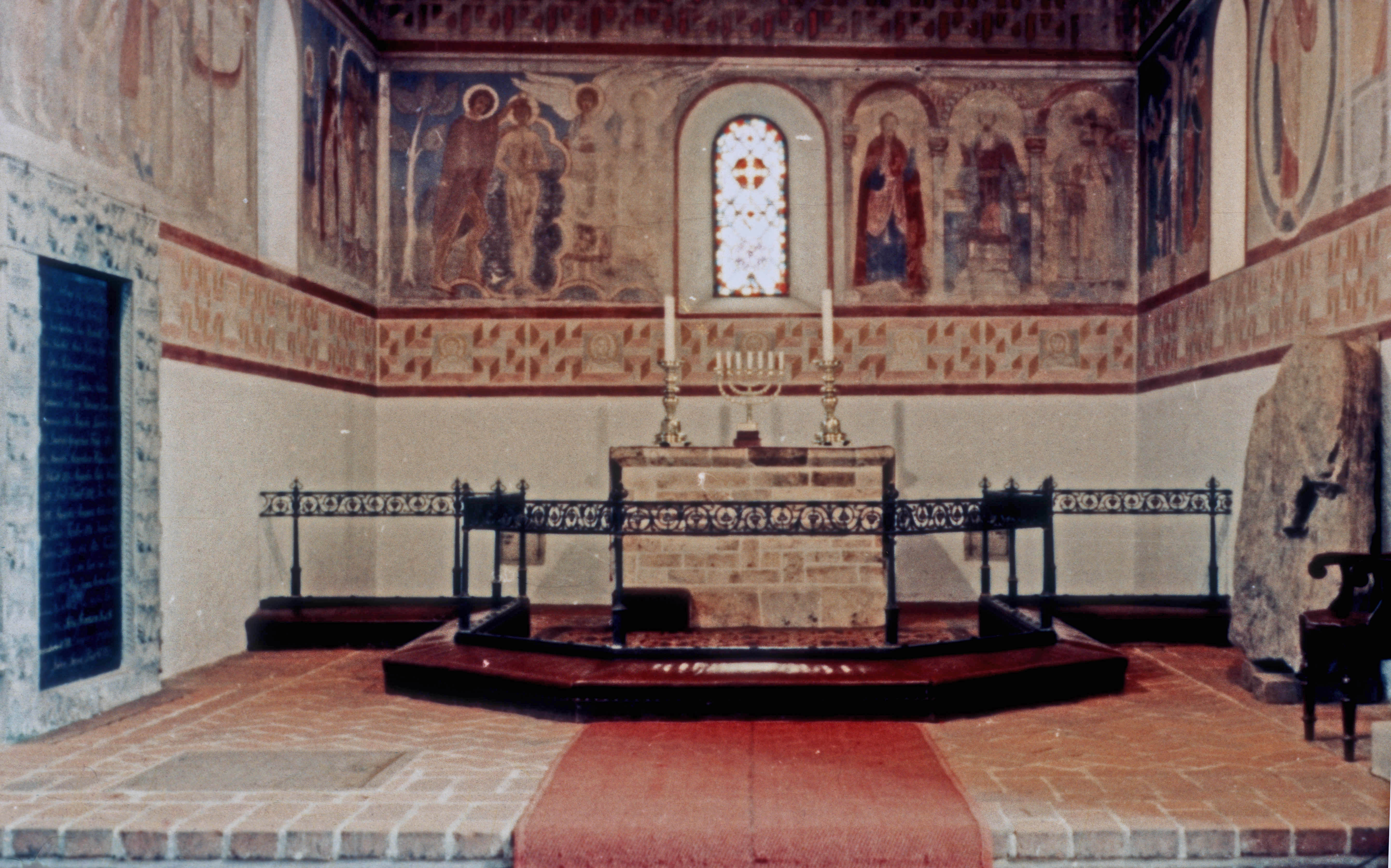 INTERIOR OF THE CHURCH WITH FRESCOES FROM 1125 DEPICTING NEW TESTAMENT STORIES